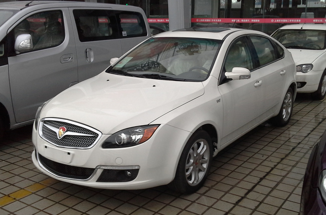 Youngman-Lotus L5 Sportback photographed in Shanghai, China.